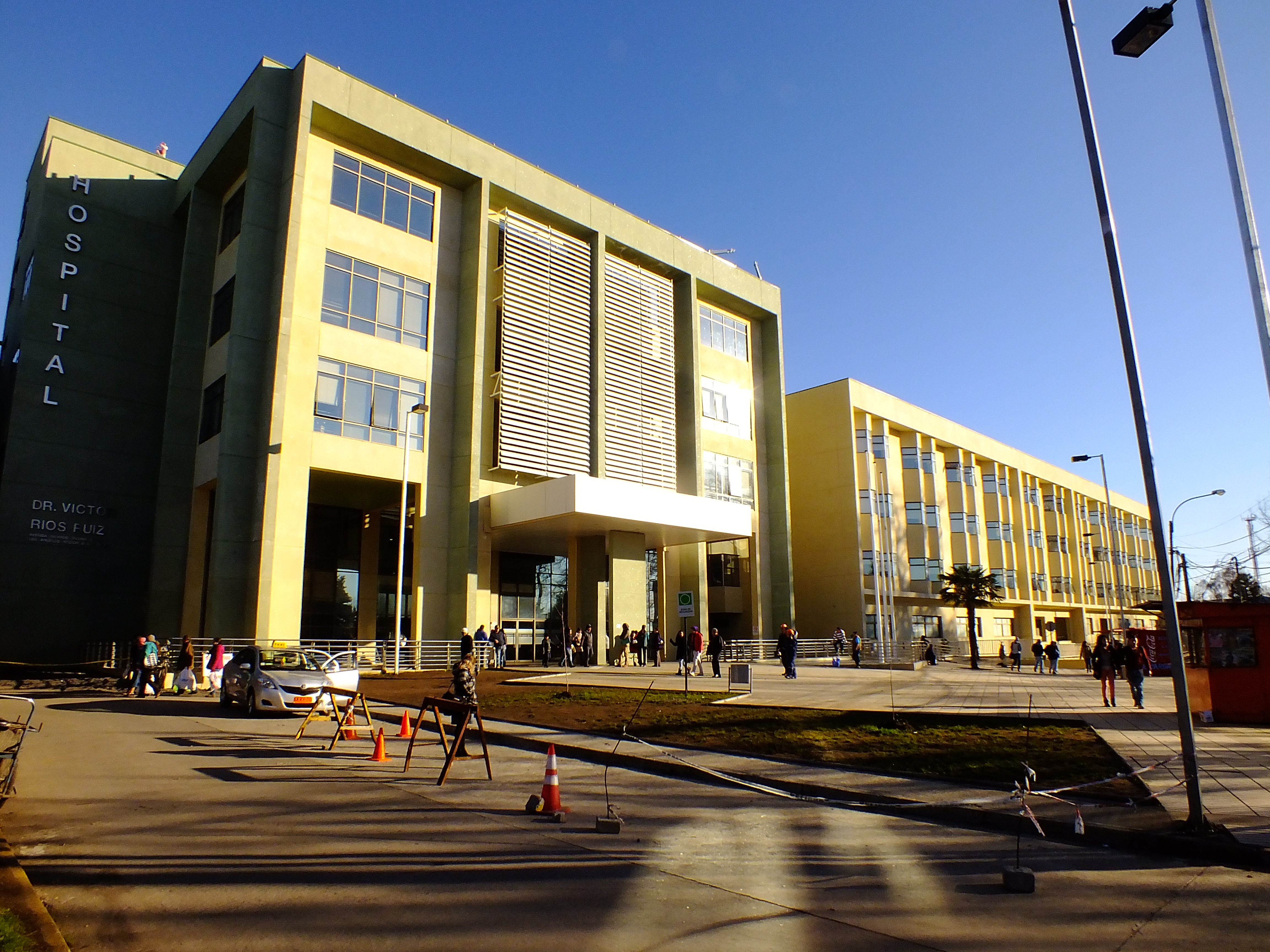 Año 2015